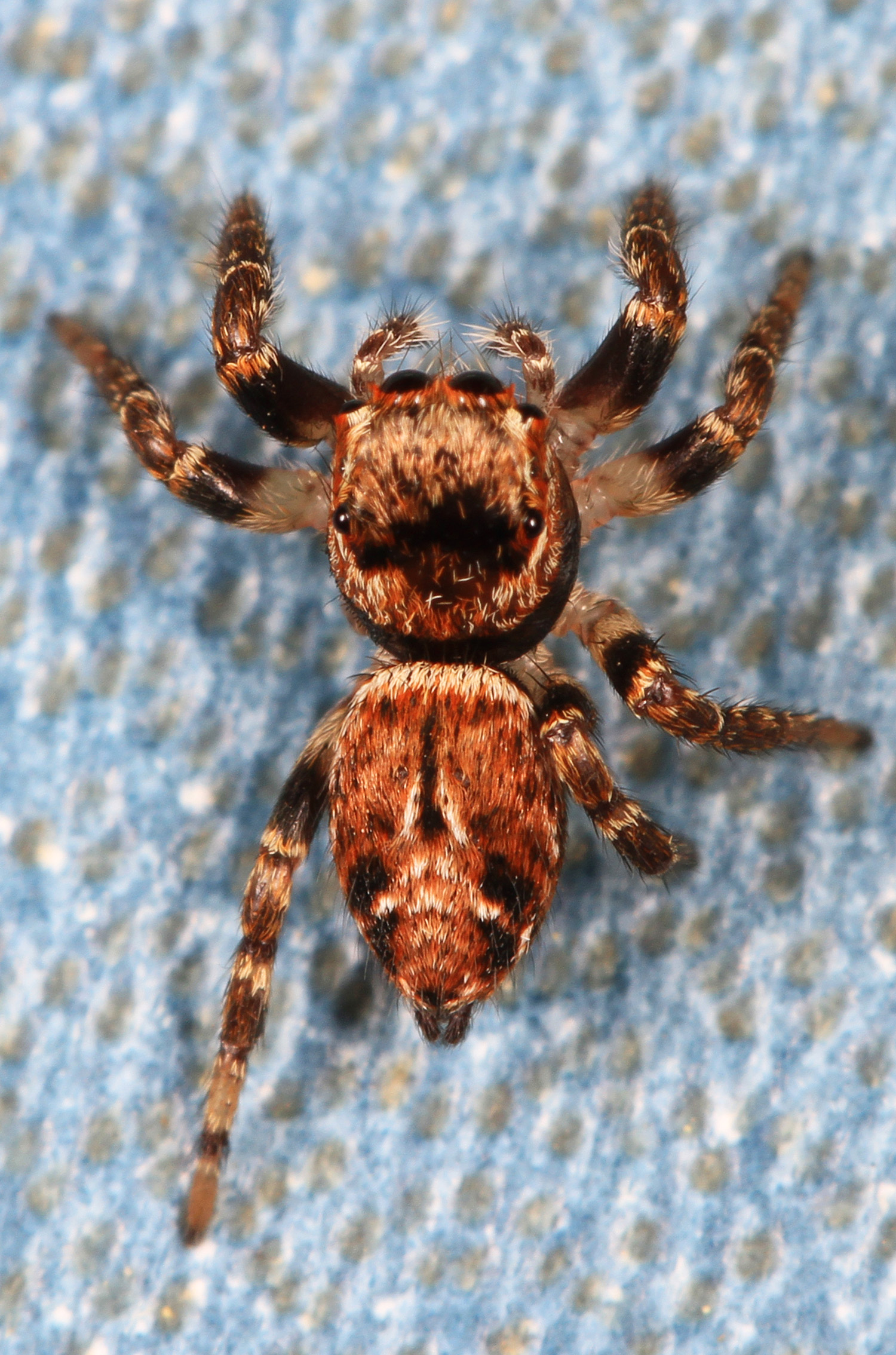 Jumping Spider - Evarcha proszynskii, near Bassetts, California